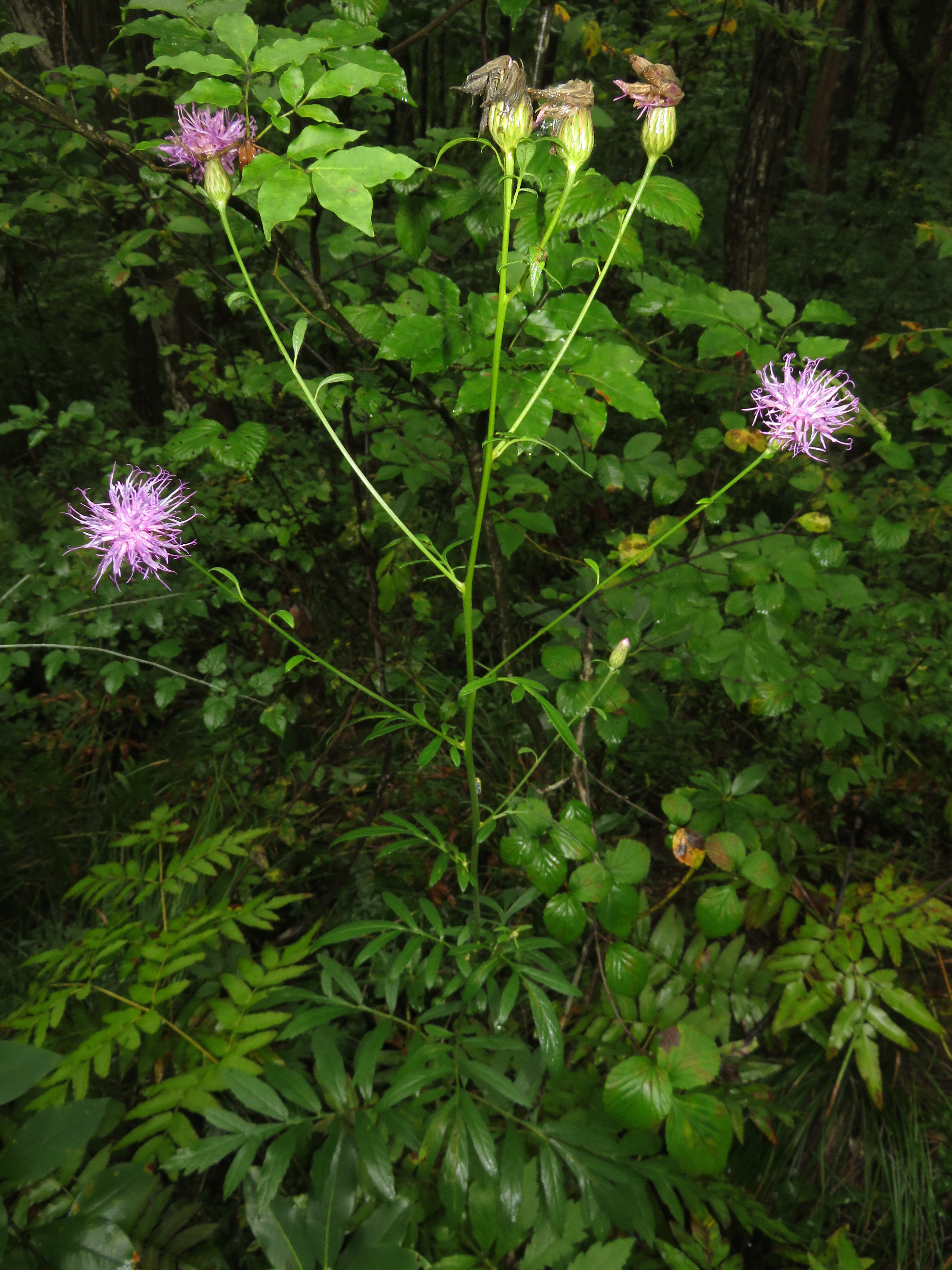 Serratula coronata subsp. insularis, Aizu area, Fukushima pref., Japan